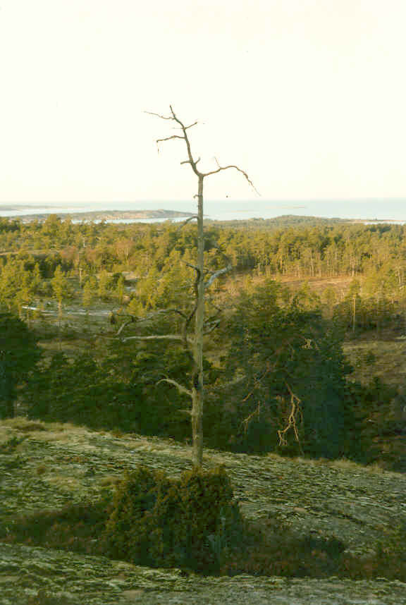 Soltuna in Geta, Northern Åland, Finland